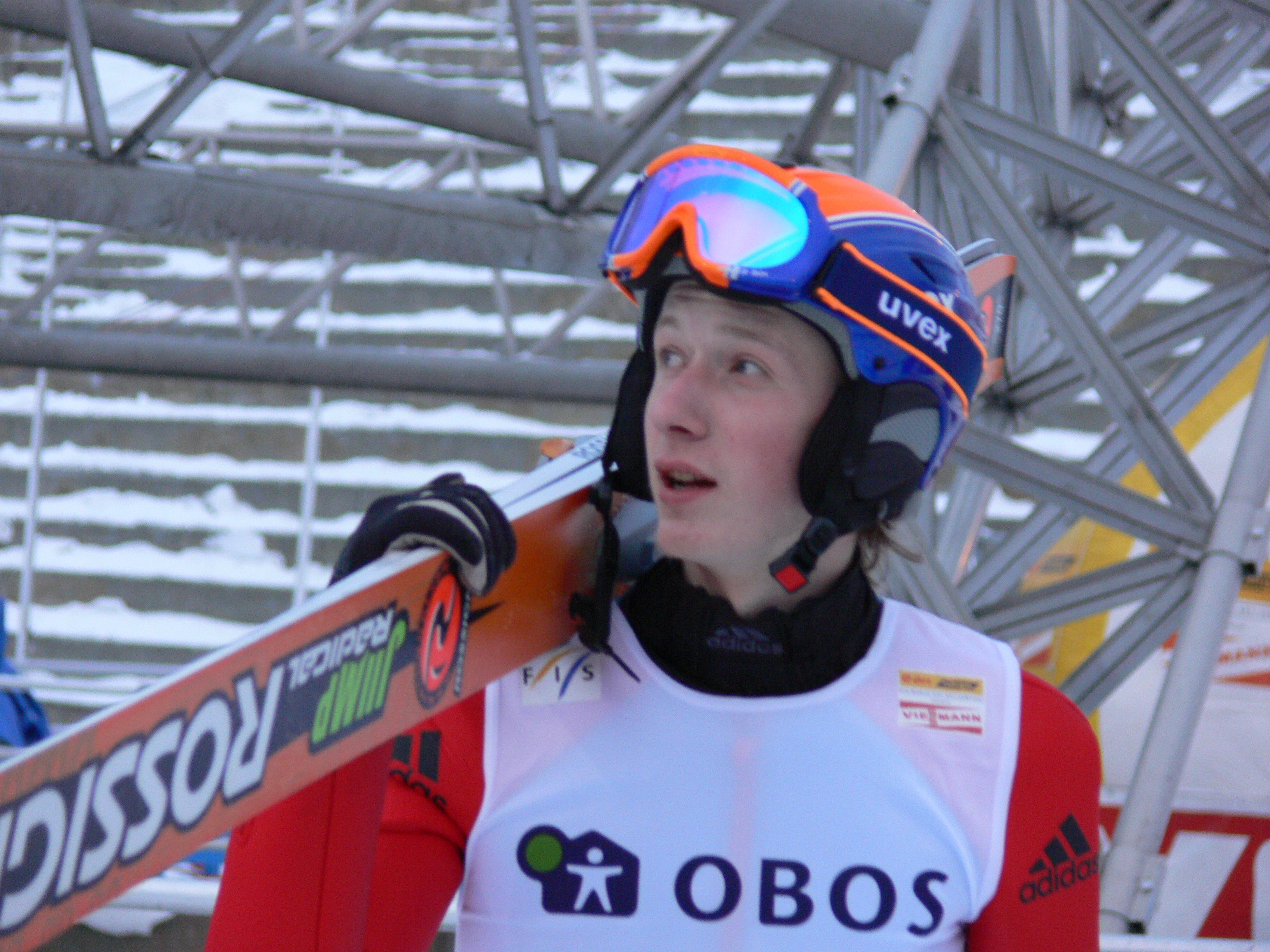 Petr Chadaev - 2006 World Cup Ski Jumping event in Holmenkollen .